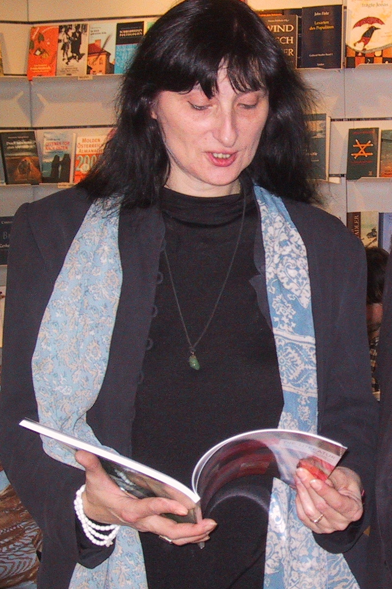 The author Traude Korosa at the book fair in Vienna Town Hall (2003).